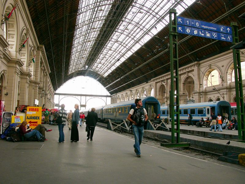 Budapest Eastern Railway Station (Keleti pályaudvar Budapest), Hungary